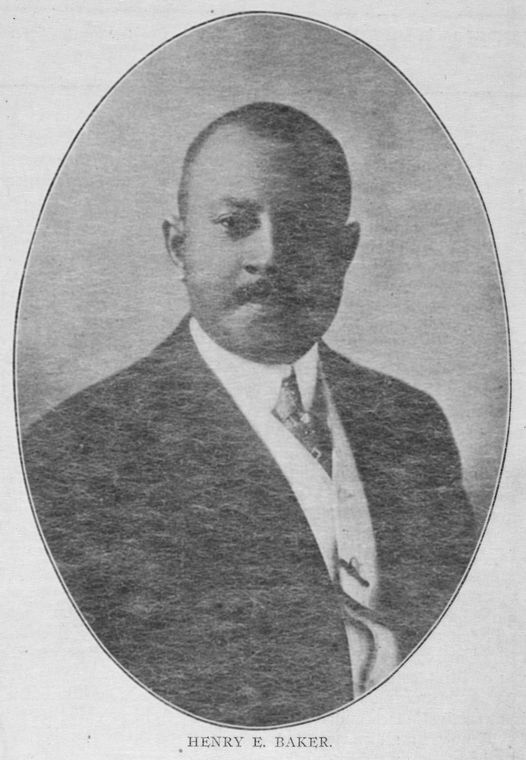 Portrait of Henry Edwin Baker (ca. 1913), published in The colored inventor: a record of fifty years.